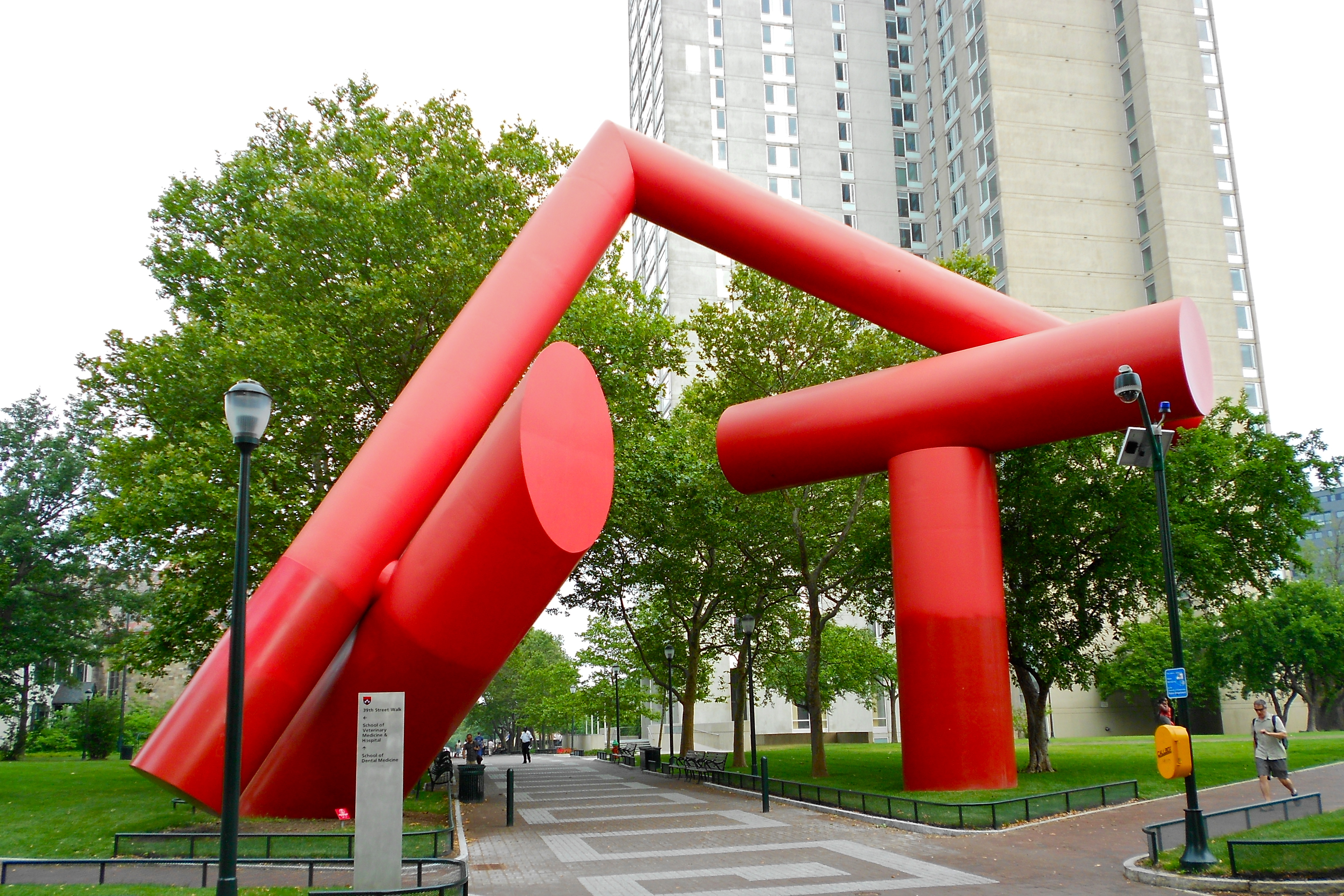 "Covenant" by Alexander Liberman, 1976, on the U Penn campus, Philadelphia PA. No visible copyright notice, therefore public domain.